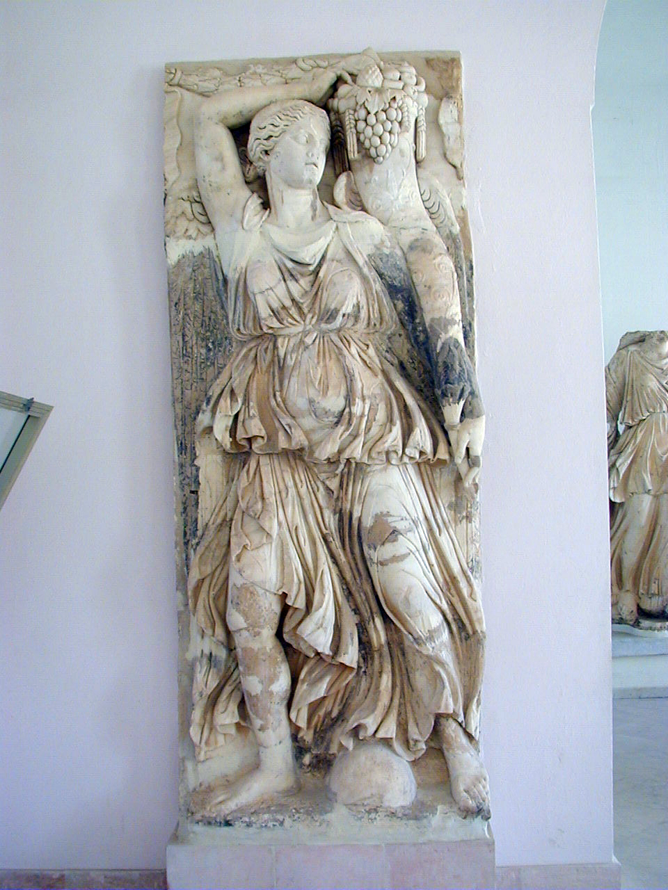 Fortuna. relief romain 2, MN carthage